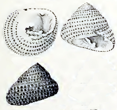 Clanculus pharaonius (Linnaeus, 1758); family Trochidae